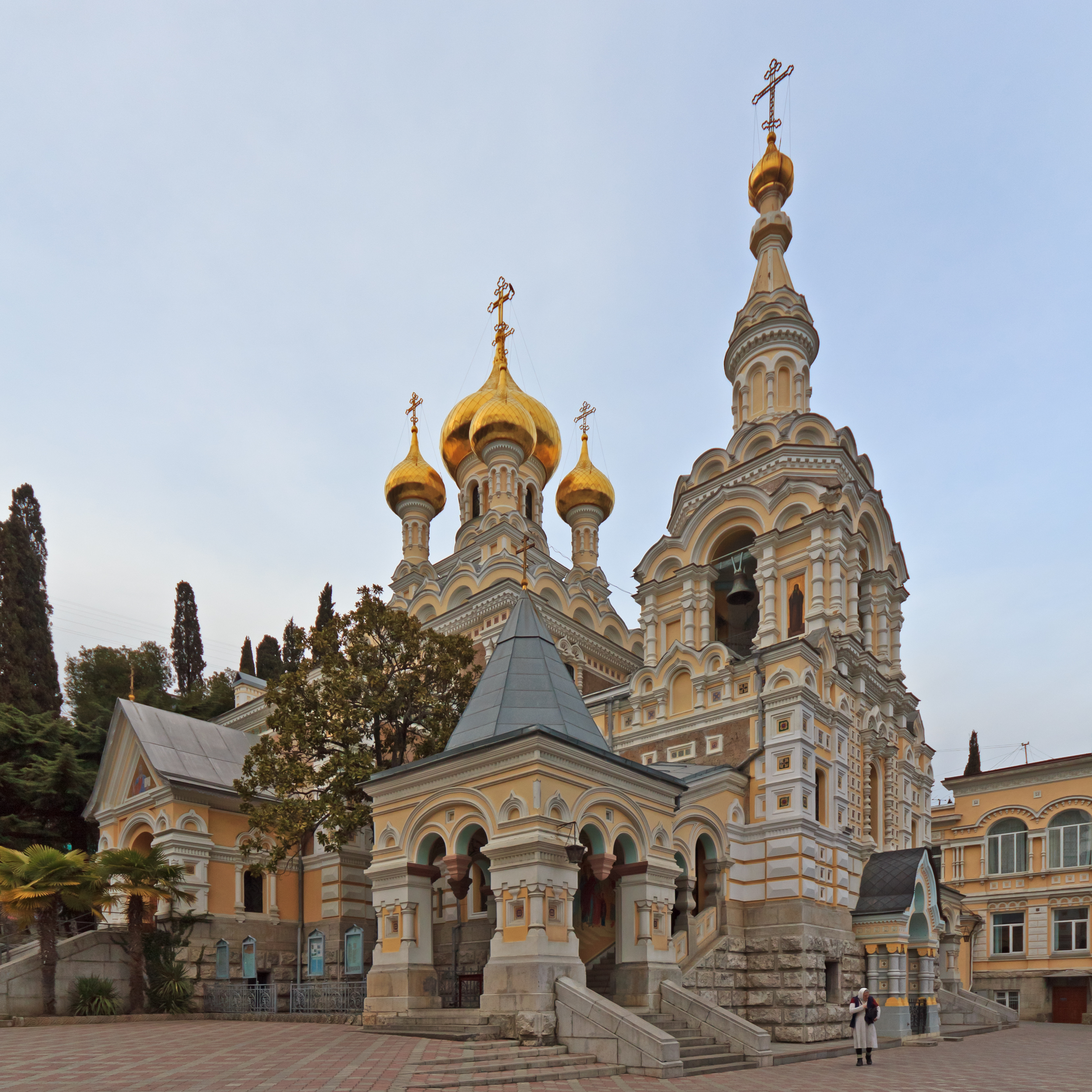 Saint Alexander Nevsky Church in Yalta, Crimean Peninsula.